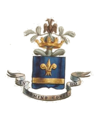 first blasons of Orengo's family